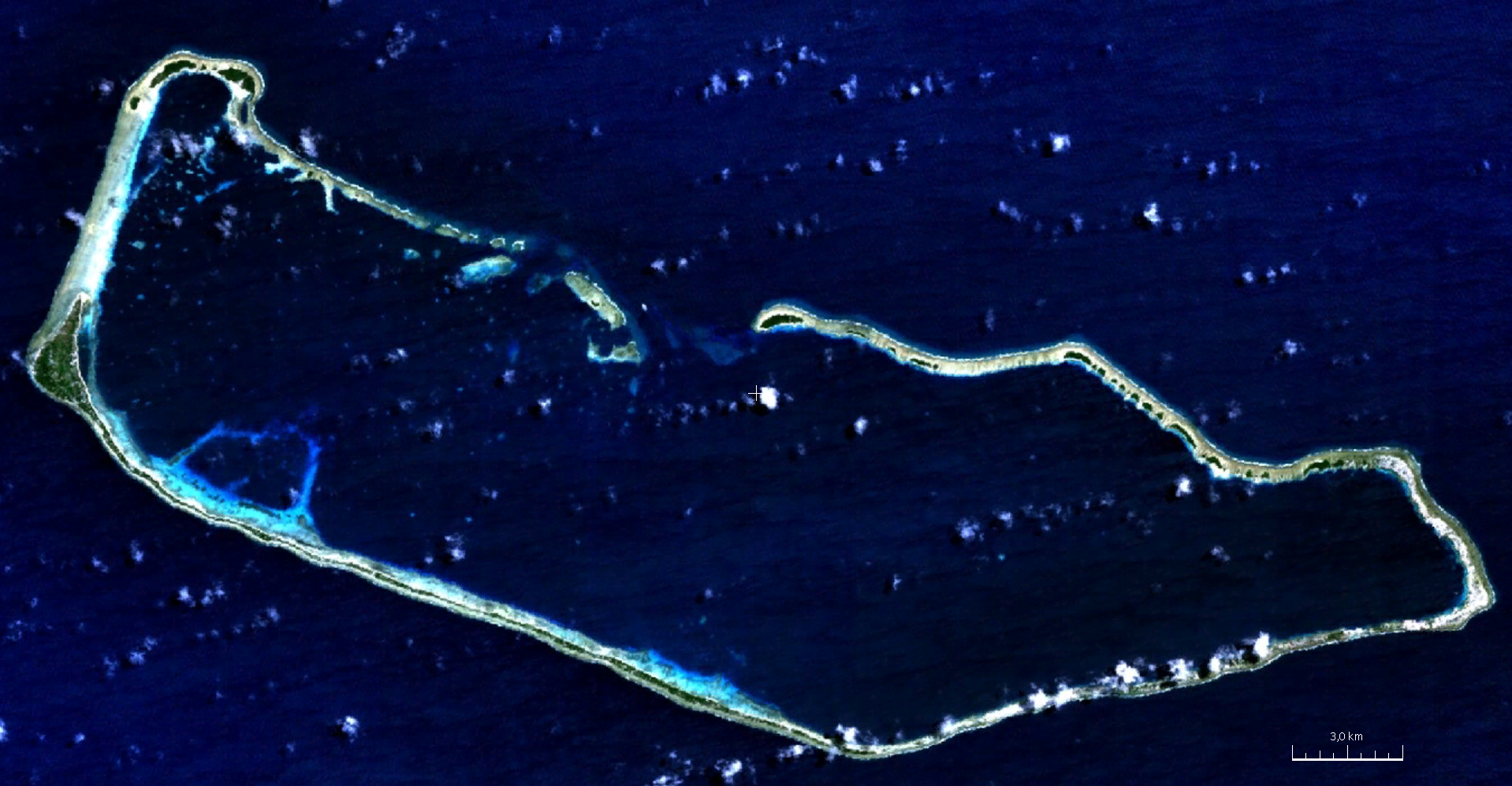 visible color satellite image of Majuro Atoll, Marshall Islands, Pacific Ocean